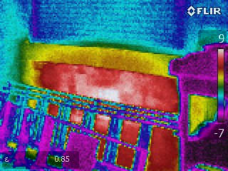 Thermal image of an heated trough a wall. The will is 9°C and it is freezing around -5°C, metal and wood are emitting differently (colder) than bricks and stone there is then an impression of a surfreezing..